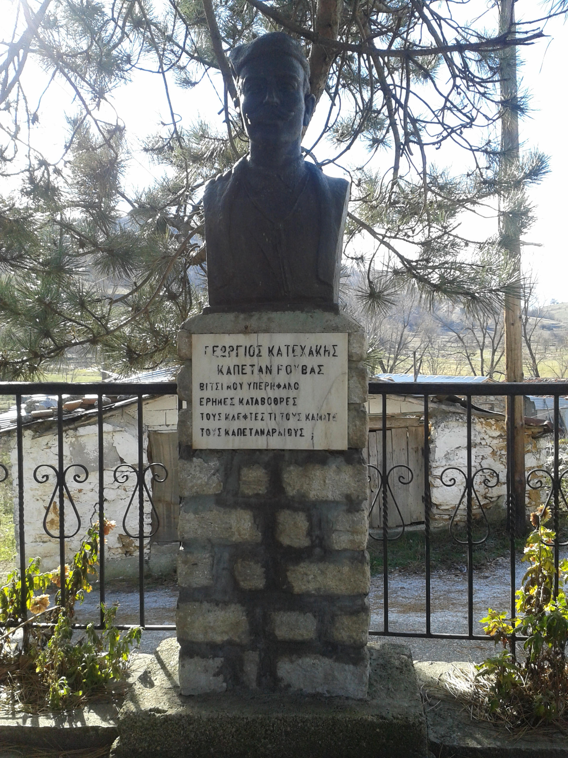 Bust of Georgios Katehakis in Oxya, Kastoria Prefecture